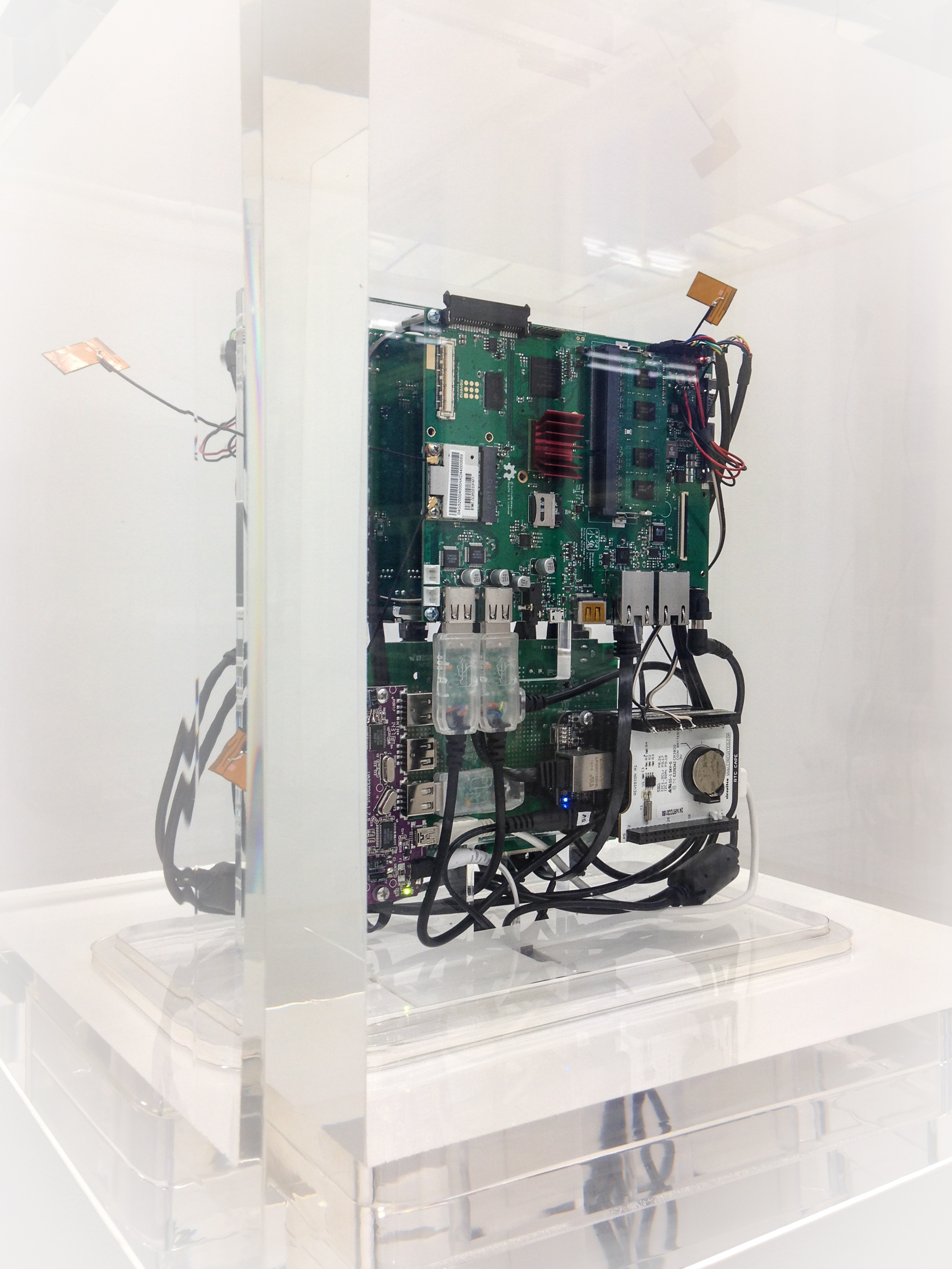 Trevor Paglen, Jacob Appelbaum Autonomy Cube Tor network Relay && Hotspot